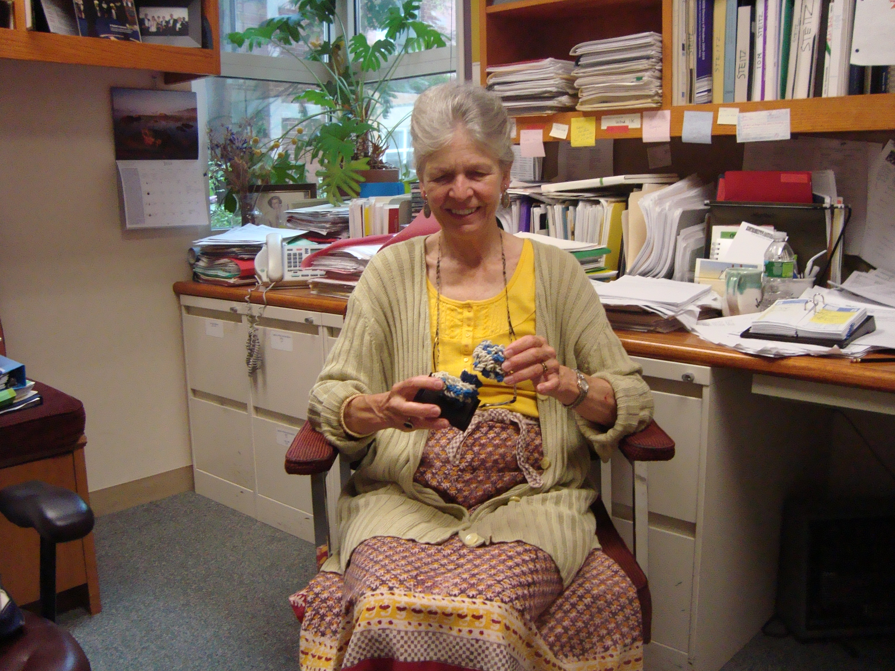 Photograph of Joan A. Steitz taken in her office in the Boyer Center at Yale University Medical School, New Haven, CT.